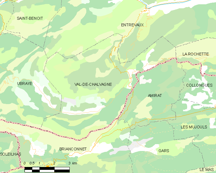 Map commune FR insee code 04043.png Légende